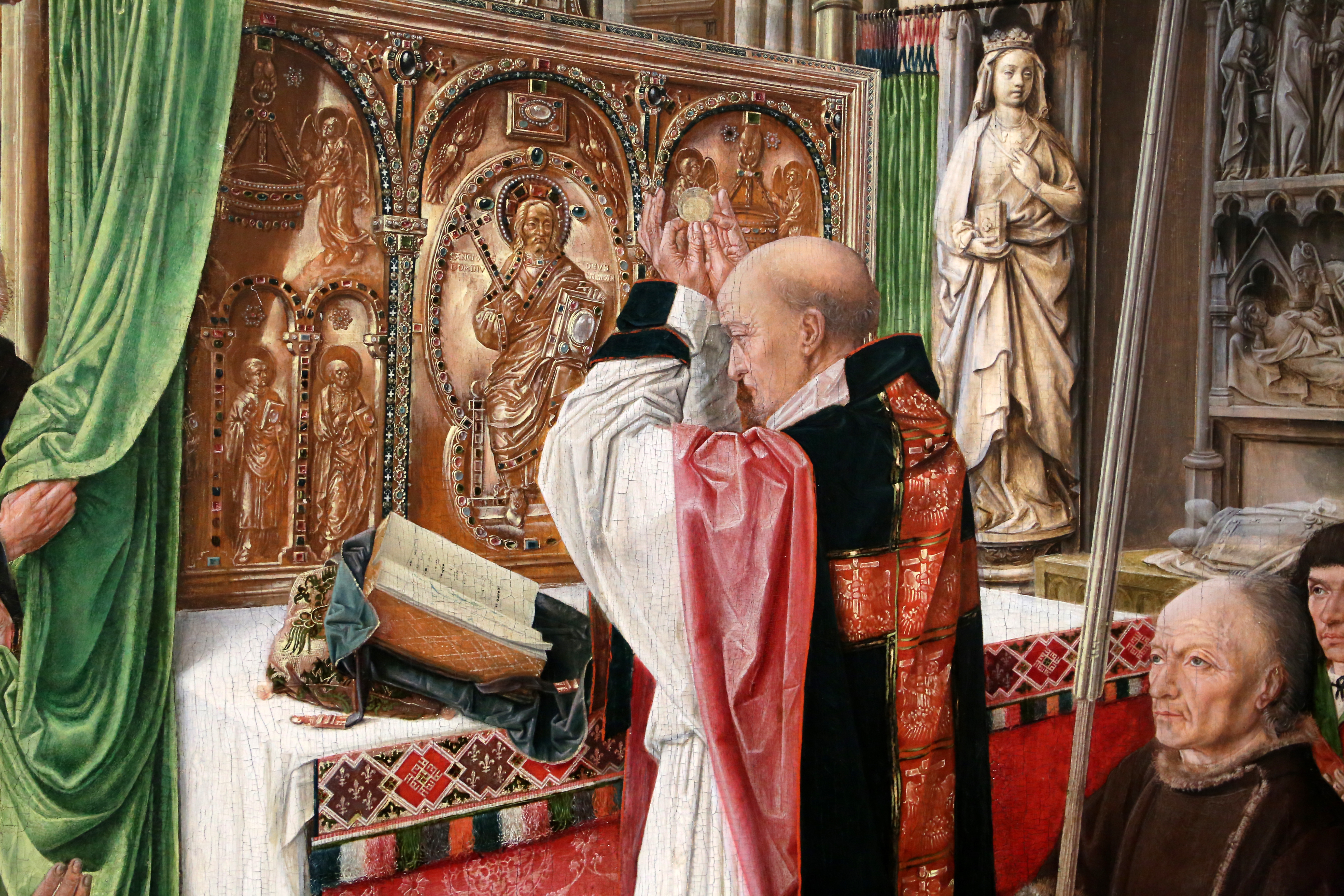 Early Netherlandish paintings in the National Gallery